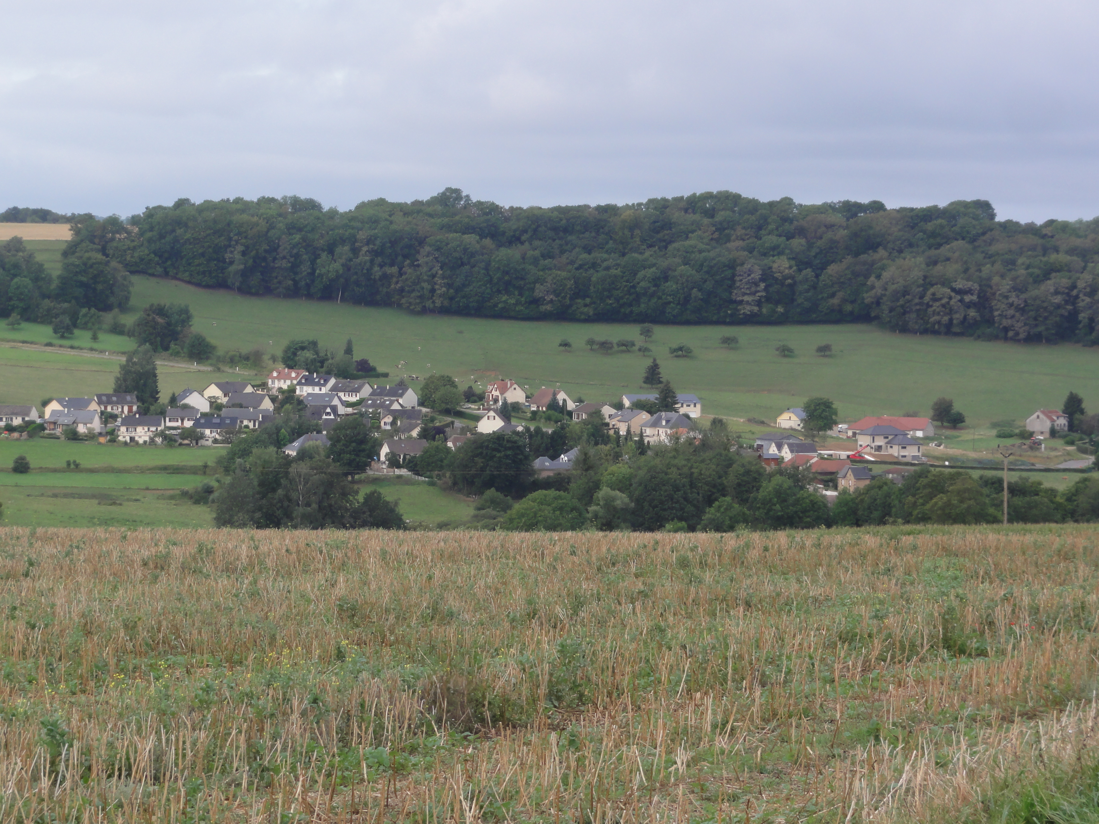 Warnécourt (Ardennes) vue du village